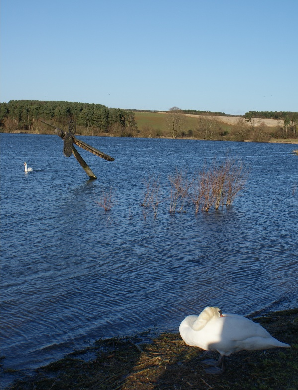 View of Pitsford Water, Northamptonshire